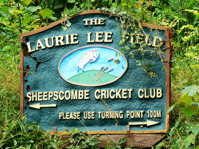 Sheepscombe Cricket Club The small village has an active cricket club which plays in the Gloucestershire County League. The author Laurie Lee was born in the nearby town of Stroud and moved to Slad in the next valley at the age of three. Despite service with the Republican forces in the Spanish Civil War of the late 1930s he was 83 when he died in 1997. Laurie Lee purchased the cricket field in 1972 to protect it from developers. Doubtless he made some provision to protect the land in perpetuity after his death.